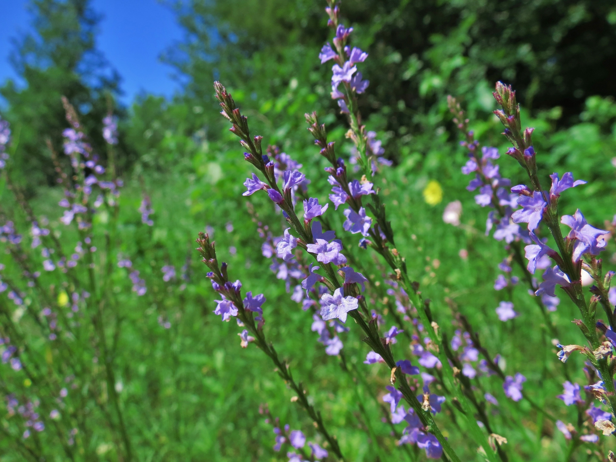 Texas vervain in bloom. Image taken 21 April, 2012 at Trinity River Audubon Center, Dallas, TX, USA